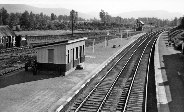 Boat of Garten Station. View southward, towards Aviemore; ex-HR Aviemore - Forres - (Inverness) main line, junction (on left) of ex-GNS branch from Craigellachie, on which passenger service ceased 18/10/65, goods 4/11/68.